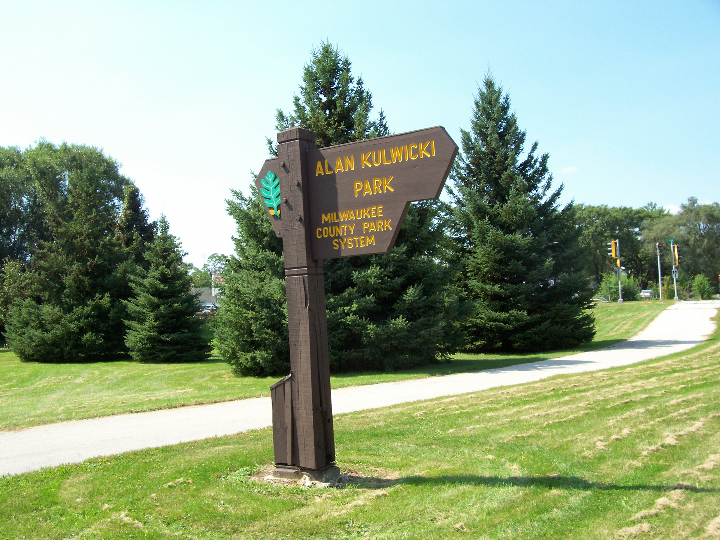 The sign for Alan Kulwicki County park in Milwaukee County, Wisconsin, USA.